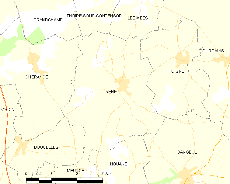 Map of French municipality